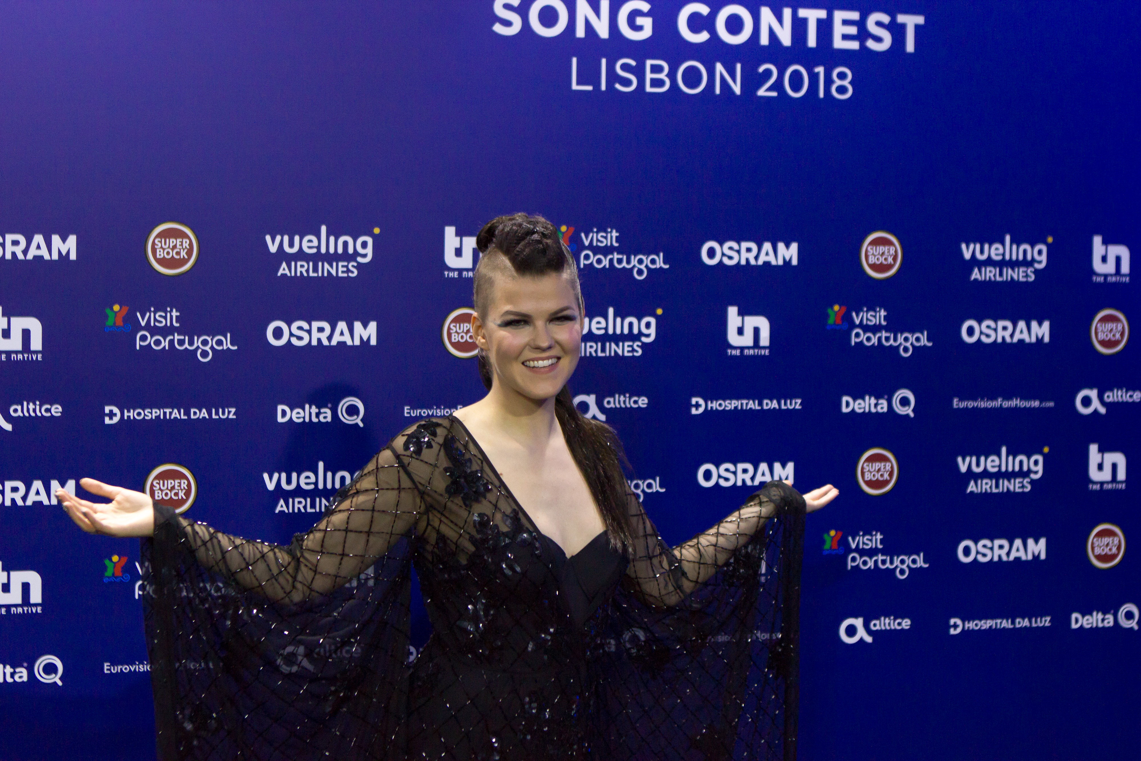 Press conference after the first Semi-Final of the 2018 Eurovision Song Contest